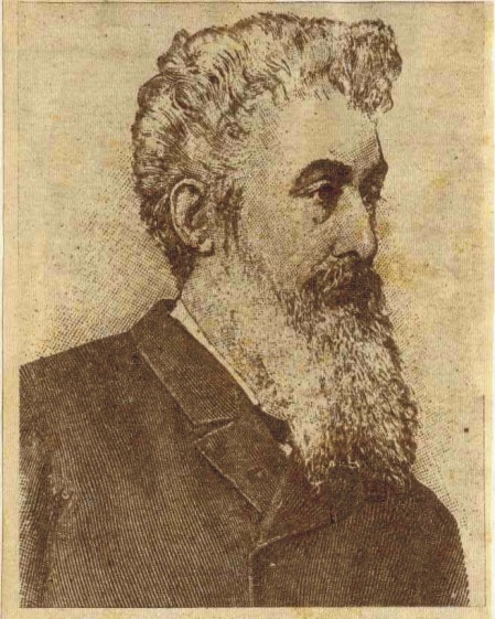 Drawing of Ramón Emeterio Betances.